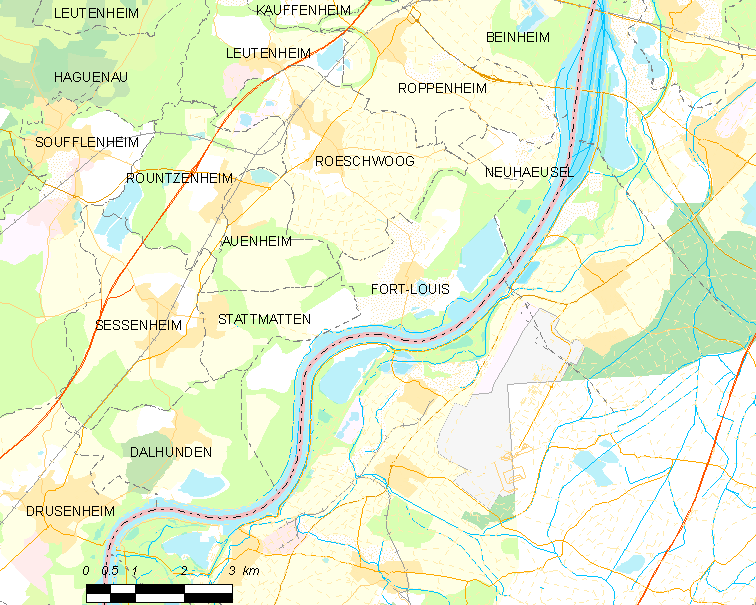 Map of French municipality